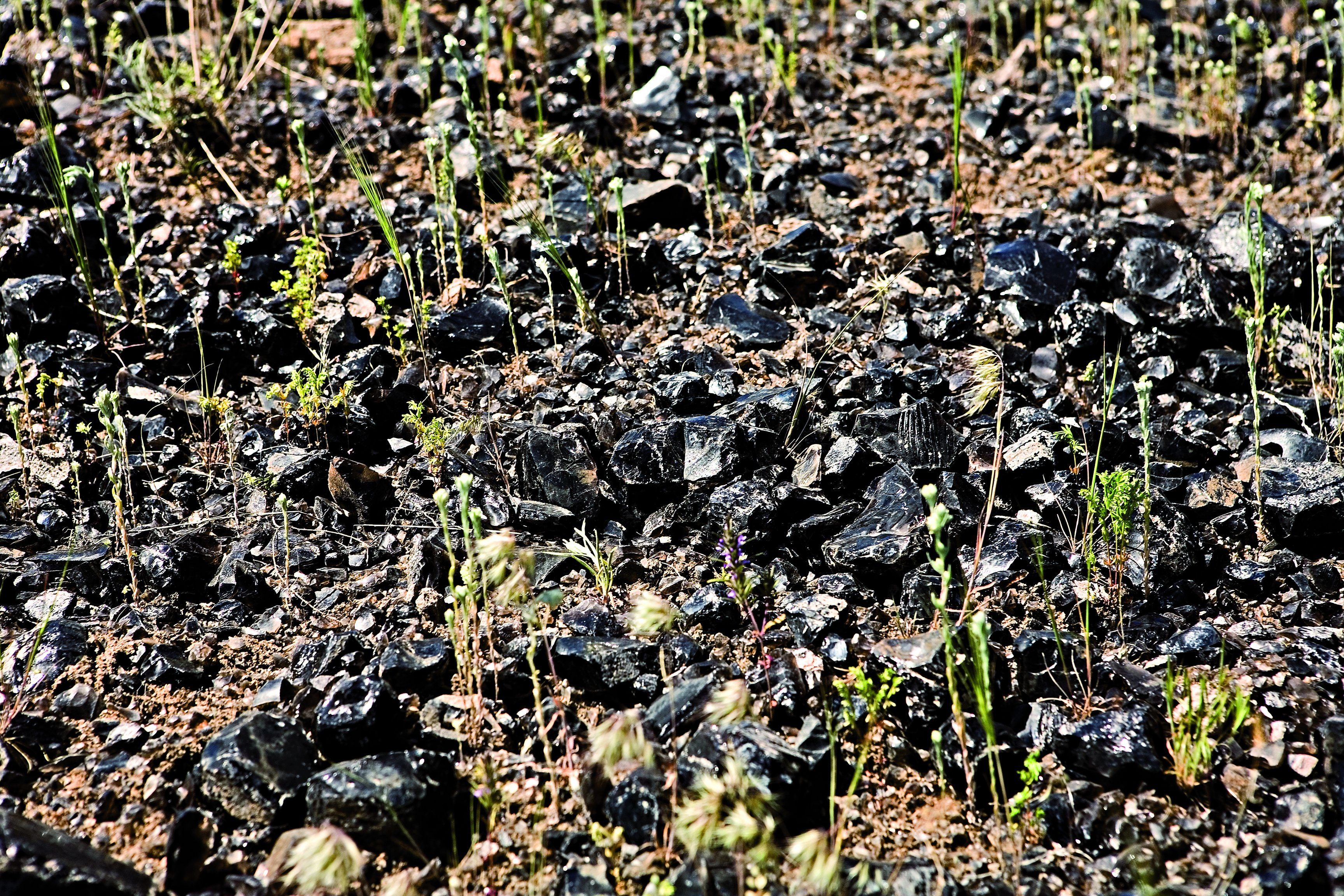 Satani-Dar